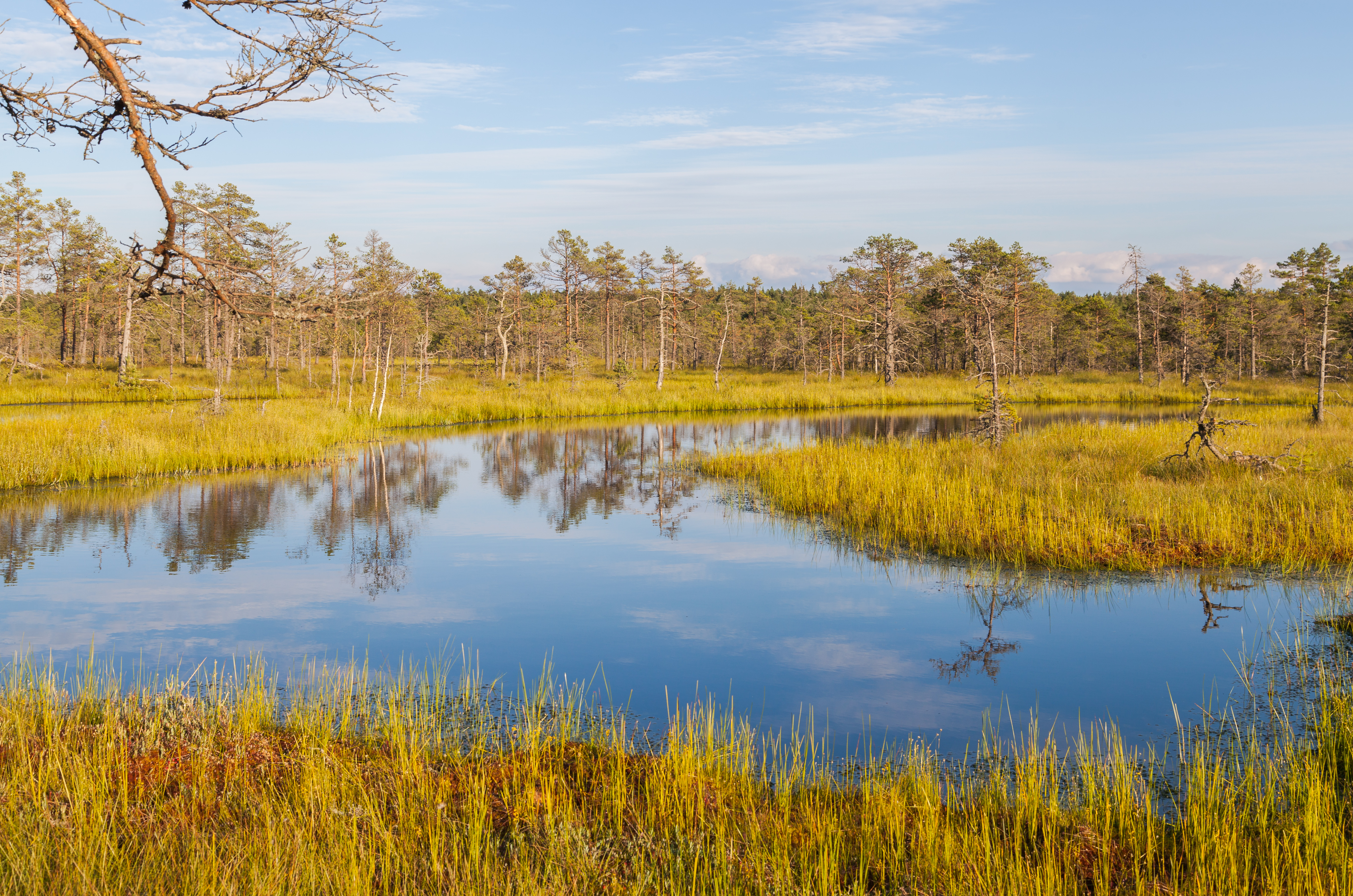 Viru bog, Lahemaa National Park, Estonia